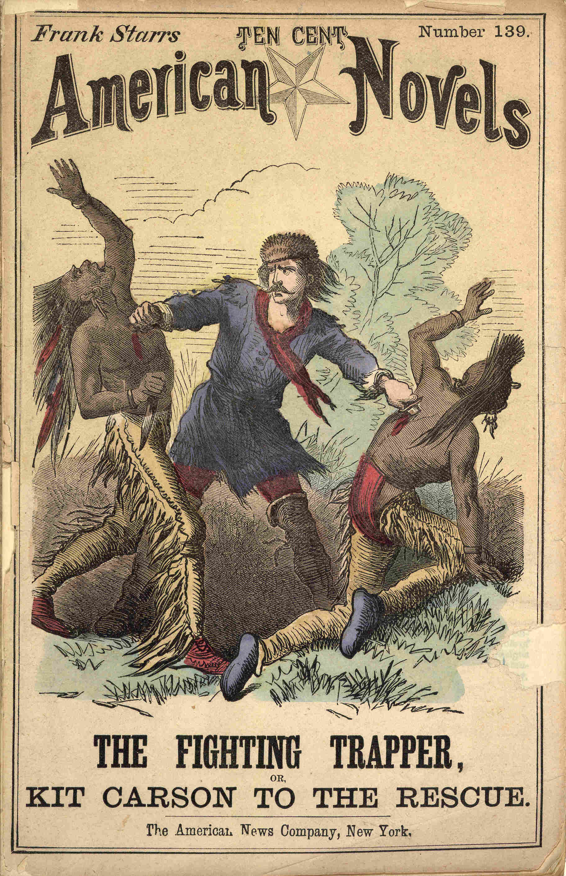 Edward S. Ellis. The Fighting Trapper, or Kit Carson to the Rescue (Ten Cent American Novels, no. 139). 1874.